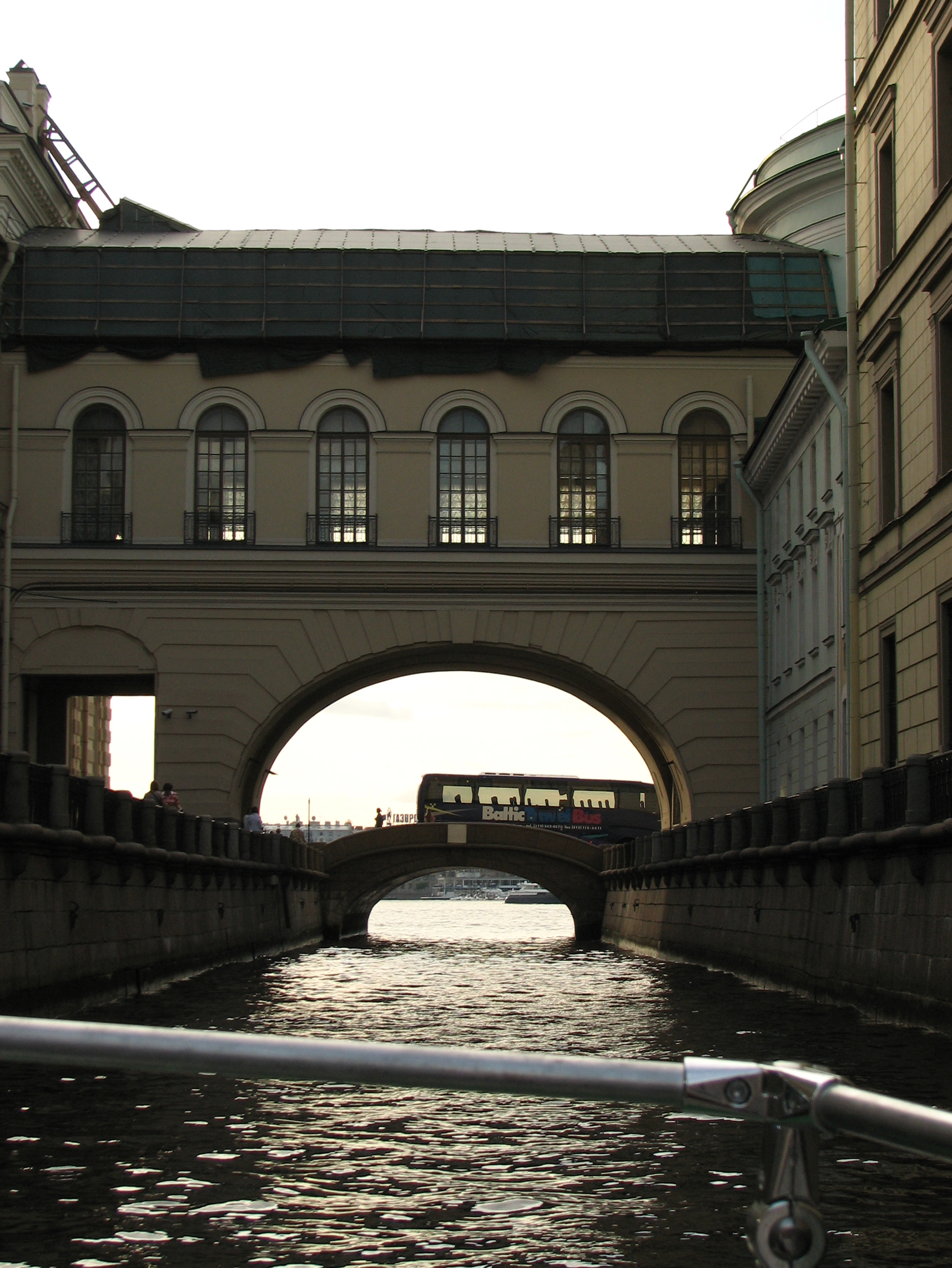 Saint Petersburg. The Hermitage bridge through the Winter Canal. Upper: the transitive gallery connecting buildings of the Old Hermitage and Hermitage theatre.